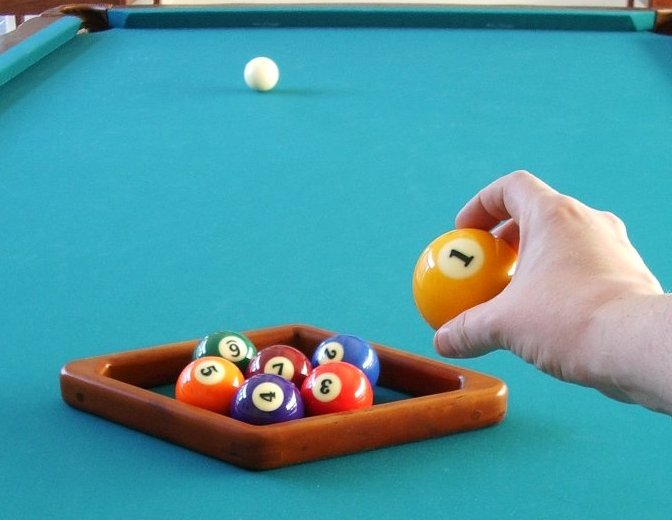 Racking up a game of seven-ball using the diamond rack more commonly used for nine-ball, but sideways. The 1 ball is about to be placed on the foot spot to complete the rack. (This is the closeup version; for the larger-view version, see below.)